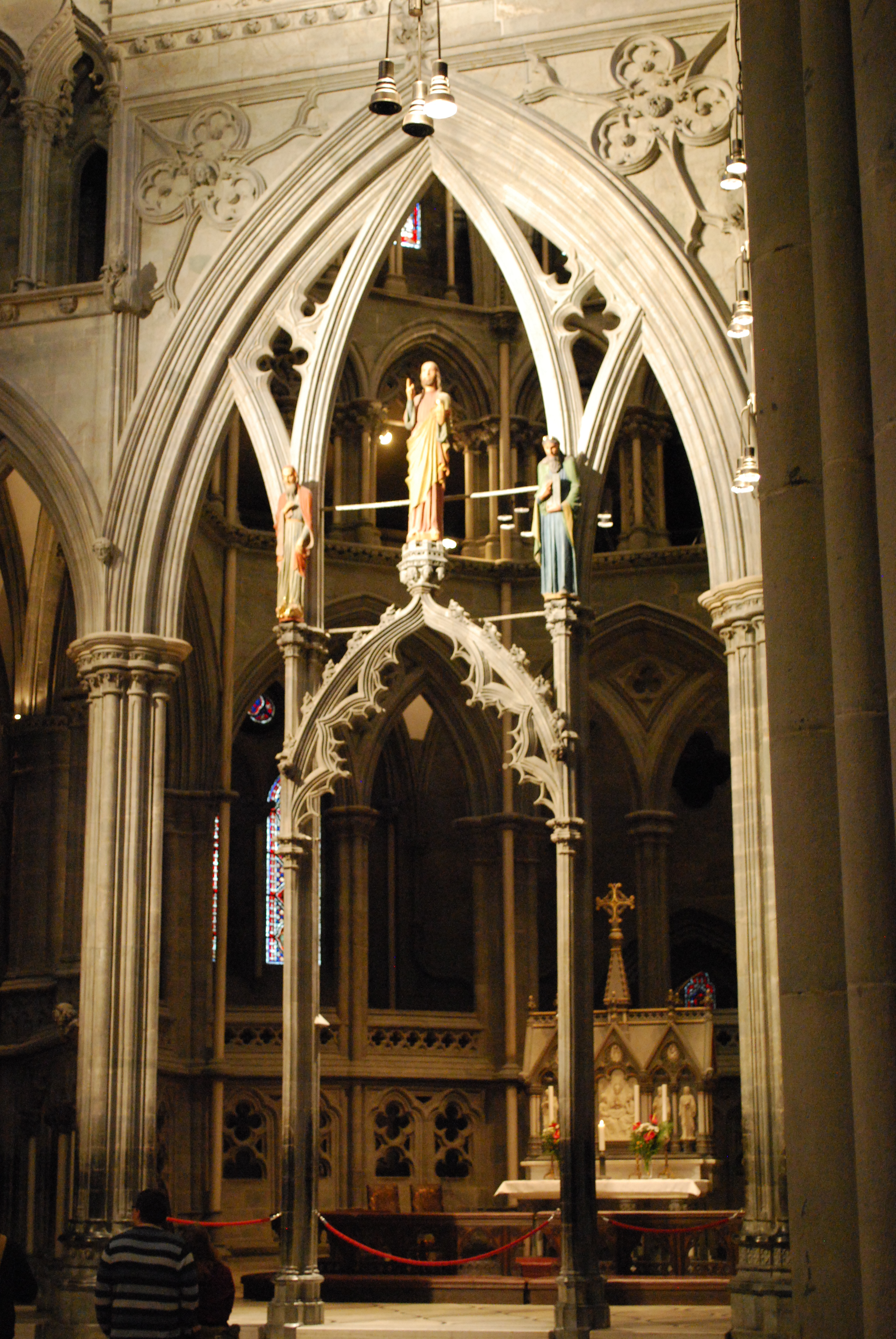 Detail of Nidaros Cathedral's sanctuary, in Trondheim